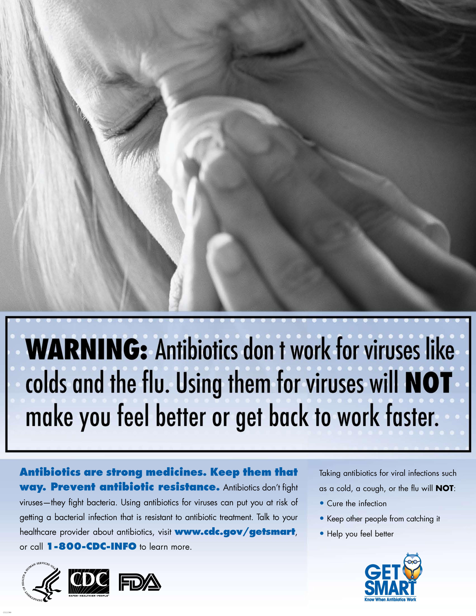 Original description: "This full color 17"x22" poster is planned for use in doctor's offices, clinics, other healthcare facilities, and media outlets. It is intended to raise awareness about appropriate antibiotic use for upper respiratory infections in adults. It explains that antibiotics are not the best answer for a cold or flu."